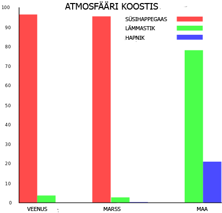 Comparison of atmospheric composition of Venus, Mars and Earth.